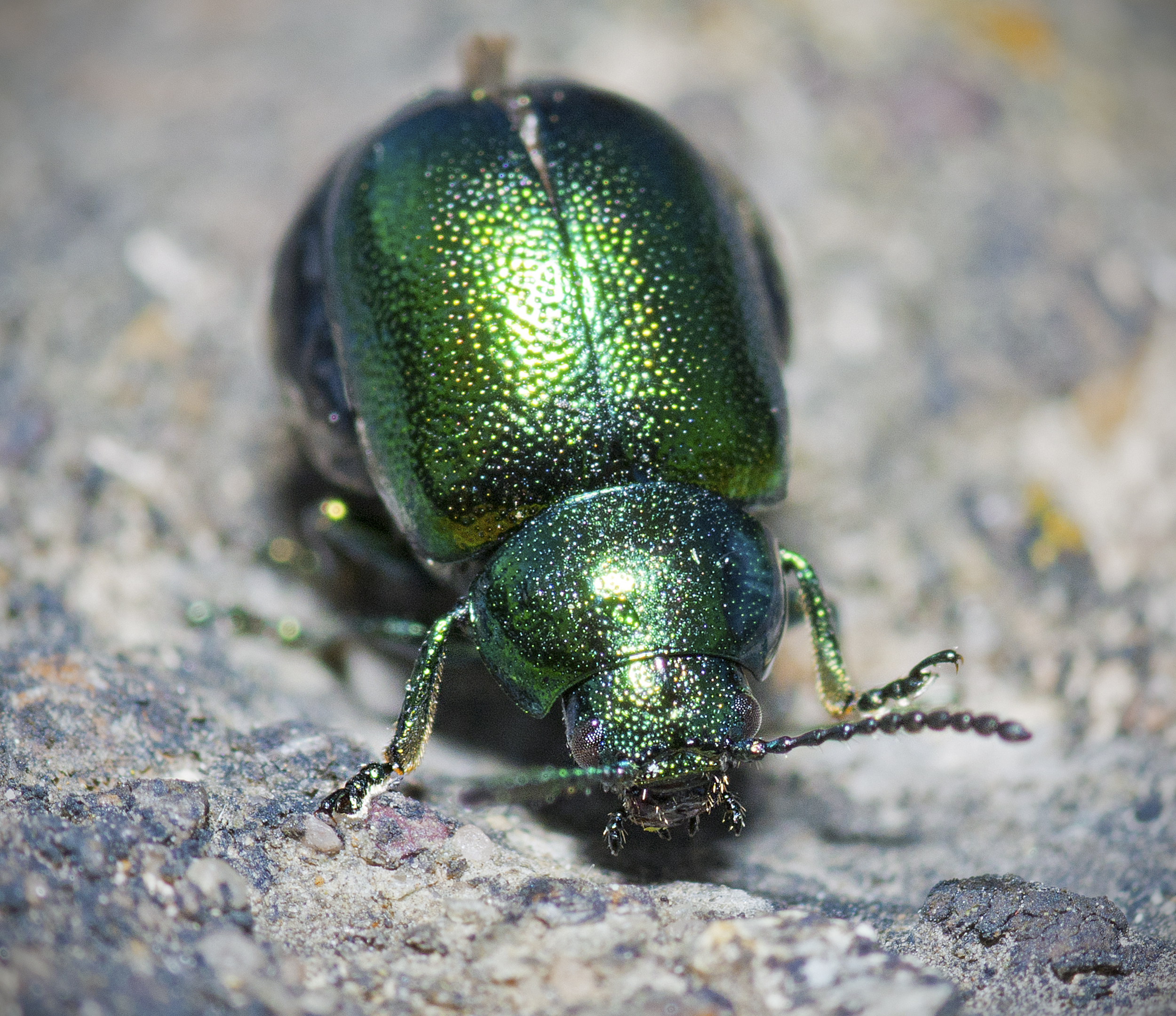 Green Dock Beetle - Gastrophysa viridula. I've seen some lovely images of Red Dock Weevils (Apion frumentarium) recently, so went looking for them but I didn't find any. Instead, I found lots of Green Dock Beetles. It's the mating season (for Green Dock Beetles - what you get up to in your spare time is your own business). The females get so full of eggs that the wing cases don't preserve their modesty. If you want to find some for yourself, look gently (so they don't drop off) on the underside of Broad Leaved Dock leaves. Sadly they were all too frisky for any focus stacks so you'll have to make do with snapshots.